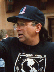 Joel Zwick directing in Full House.